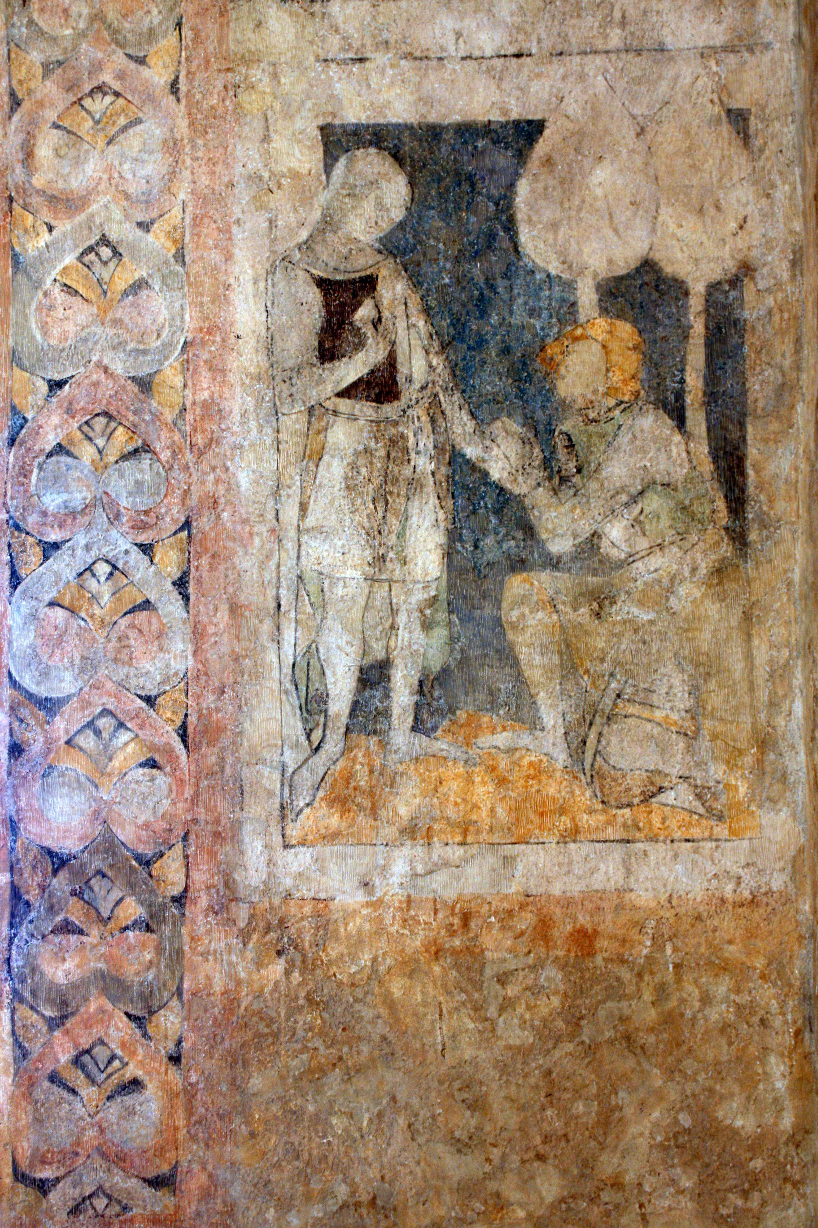 This photo of Lower Silesian Voivodeship was taken during Wikiexpedition 2013 set up by Wikimedia Polska Association.You can see all photographs in category Wikiekspedycja 2013.